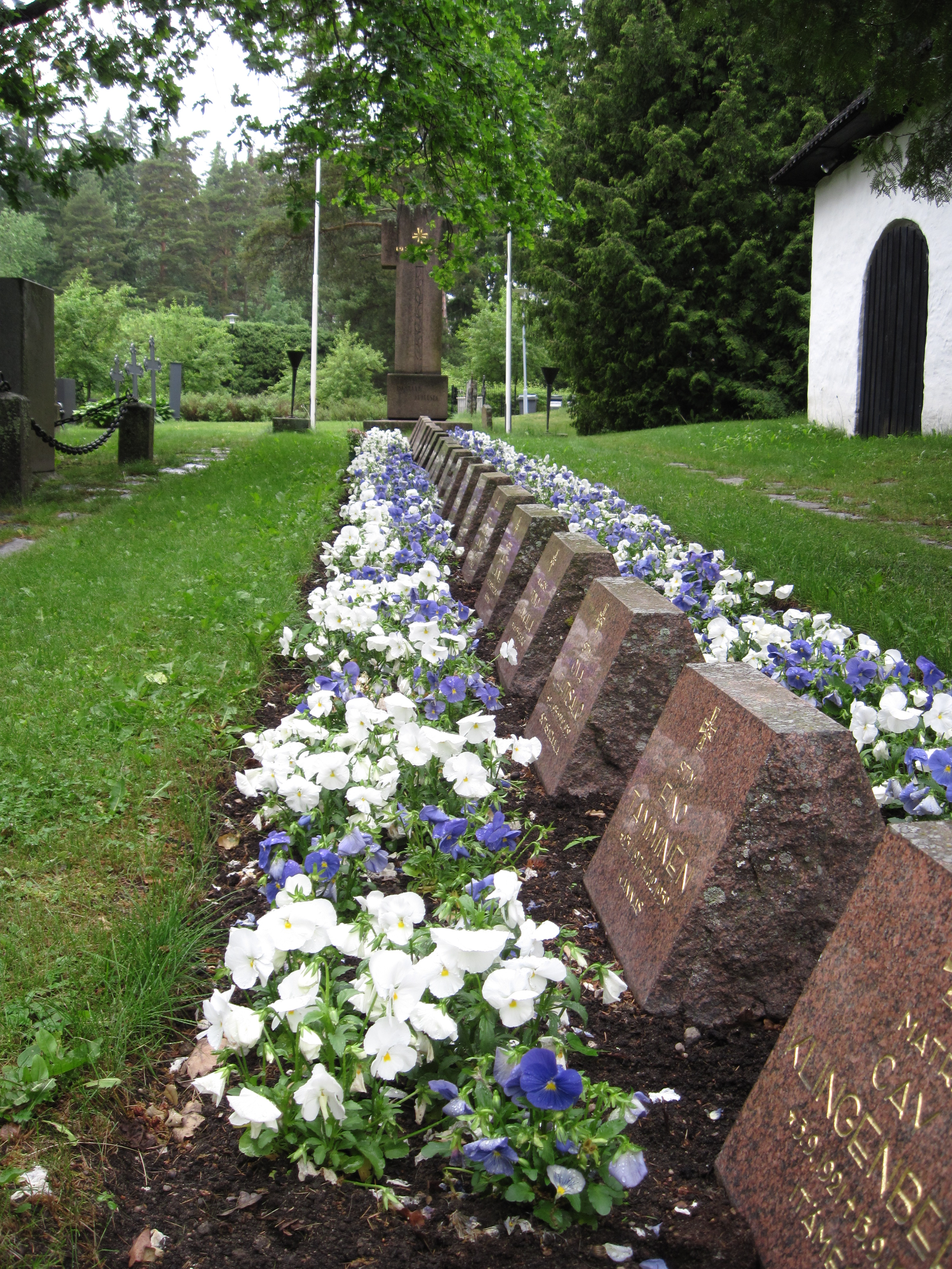 Military cemetary at church in Masku, Finland